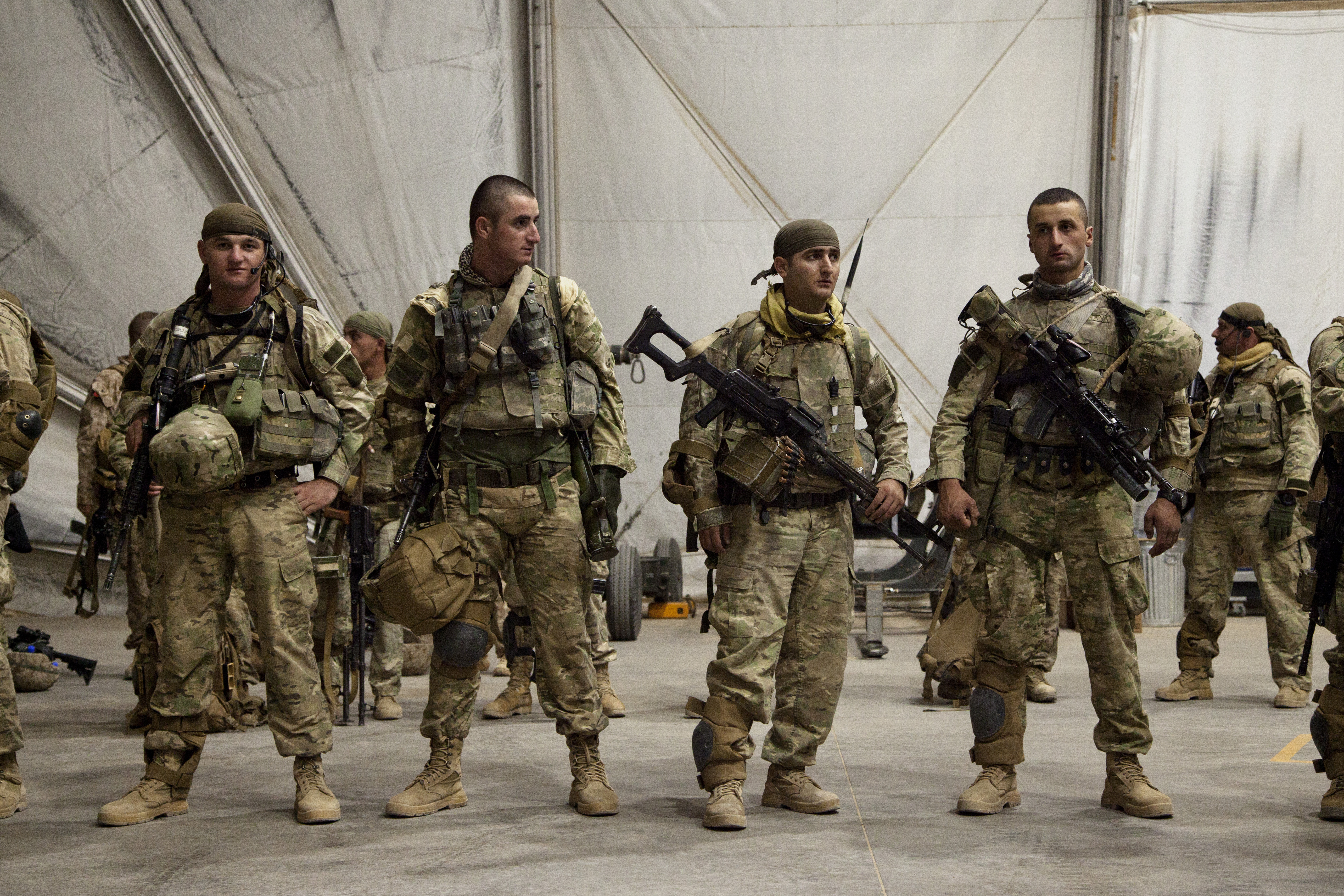 Georgian Army soldiers assigned to Charlie Company, 33rd Light Infantry Battalion wait for air transportation prior to conducting operation Northern Lion II on Camp Bastion, Helmand province, Afghanistan, July 3, 2013. Northern Lion II was a Georgian led operation conducted to deter insurgents, establish a presence, and gather human intelligence in the area. (U.S. Marine Corps photo by Cpl. Alejandro Pena/Released)